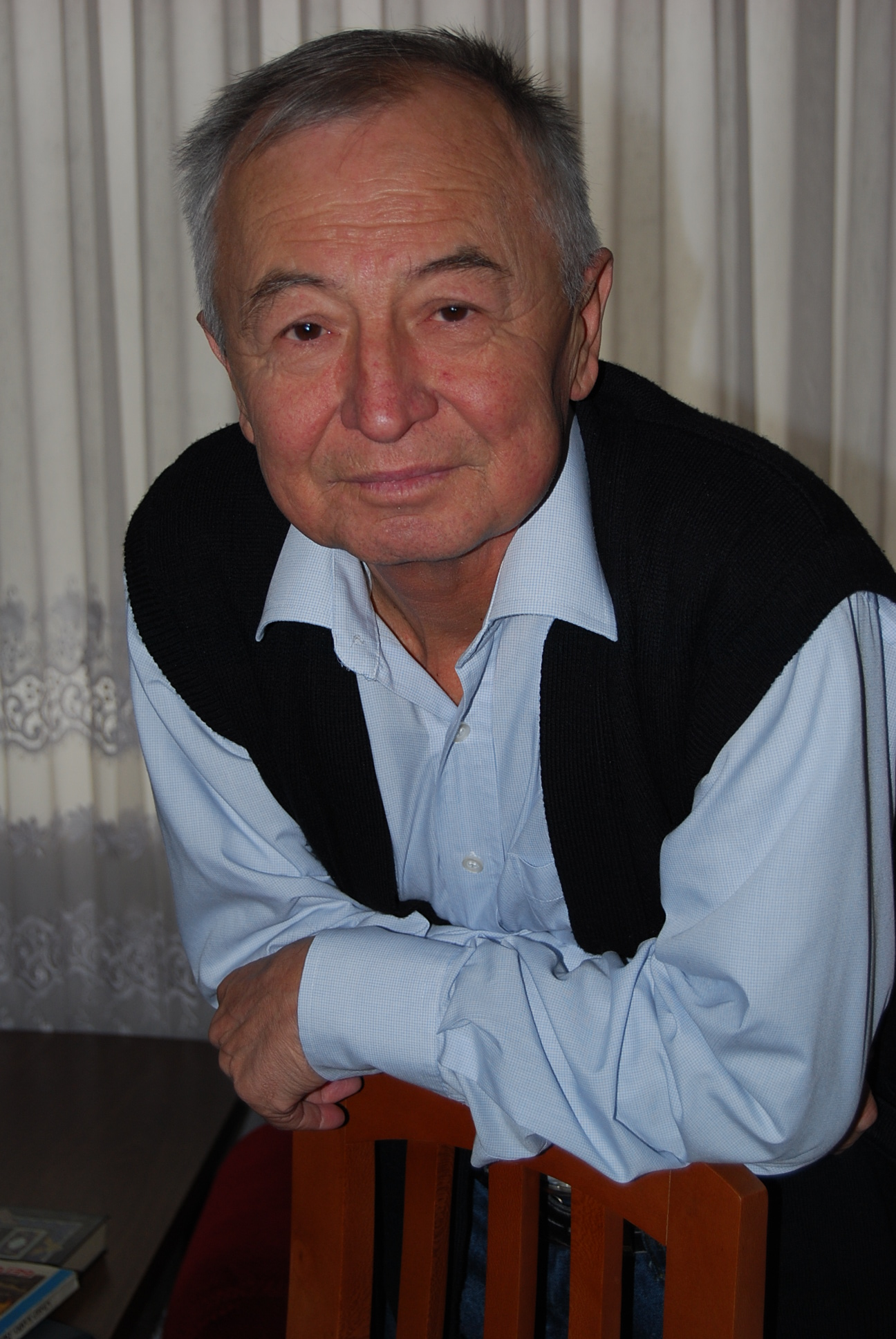 Photo of Ahmad A'zam